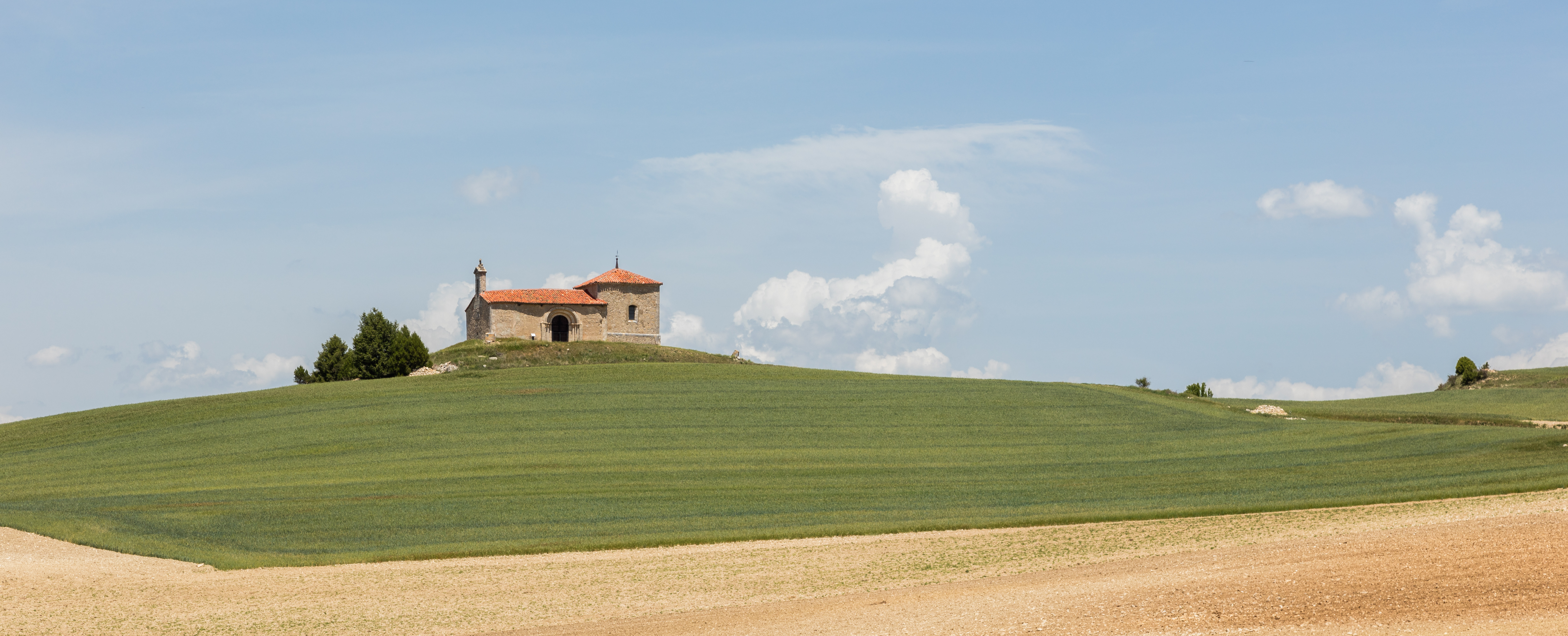 Hermitage of St Christ of Miranda, Santa María de las Hoyas, Province of Soria, Castile and León, Spain. The hermitage constructed in the 18th century but its portal dates from the 12th century is the only remain of the old settlement of Miranda.